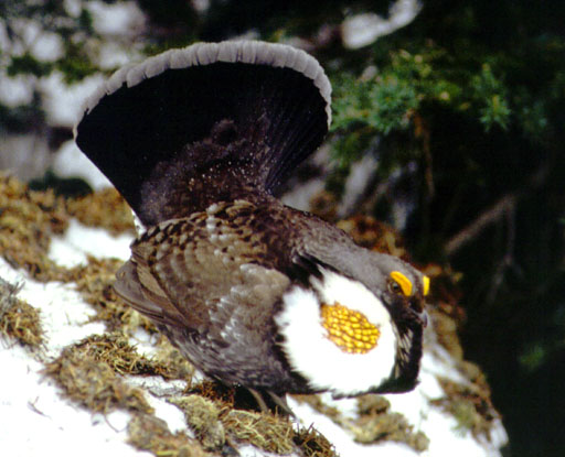 Blue Grouse, Dendragapus obscurus, male, displaying. Location: Mount Rainier National Park, Washington, United States.